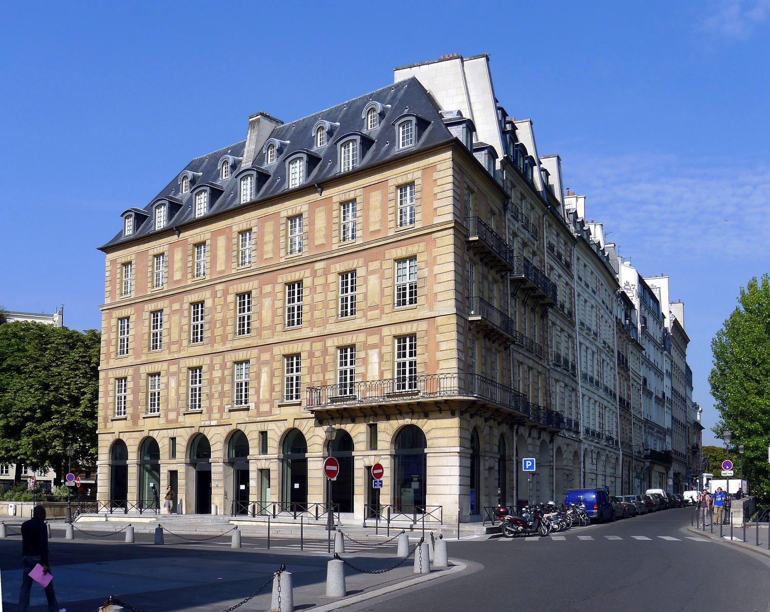 Harlay street (hôtel de Harlay) - Paris